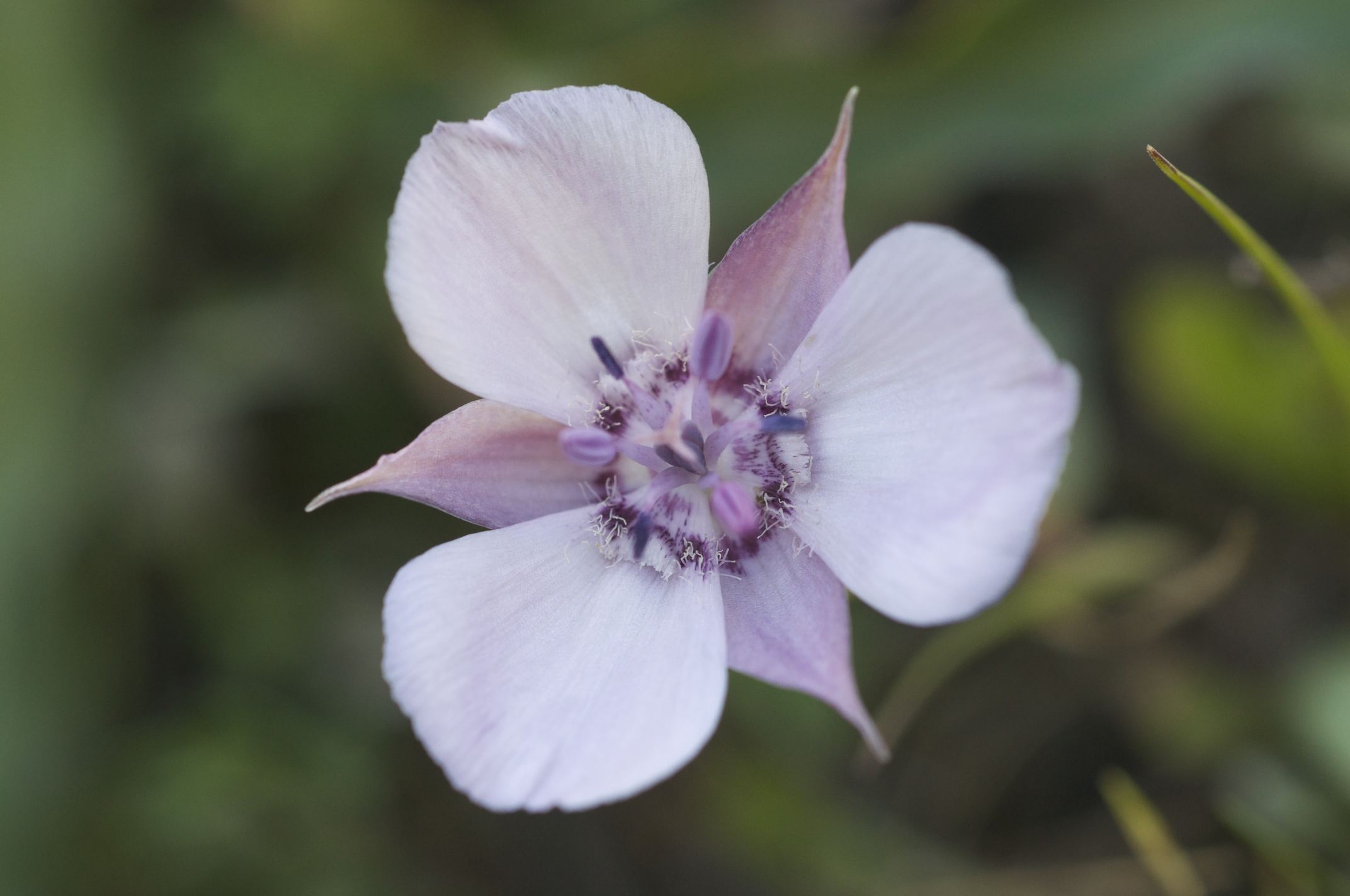 Species from California Common name: Oakland Star Tulip Photographed at Ring Mountain Open Space Preserve, Marin County, California